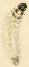 Stainton’s Natural History of the Tineina (1855–1873): Nemophora fasciella